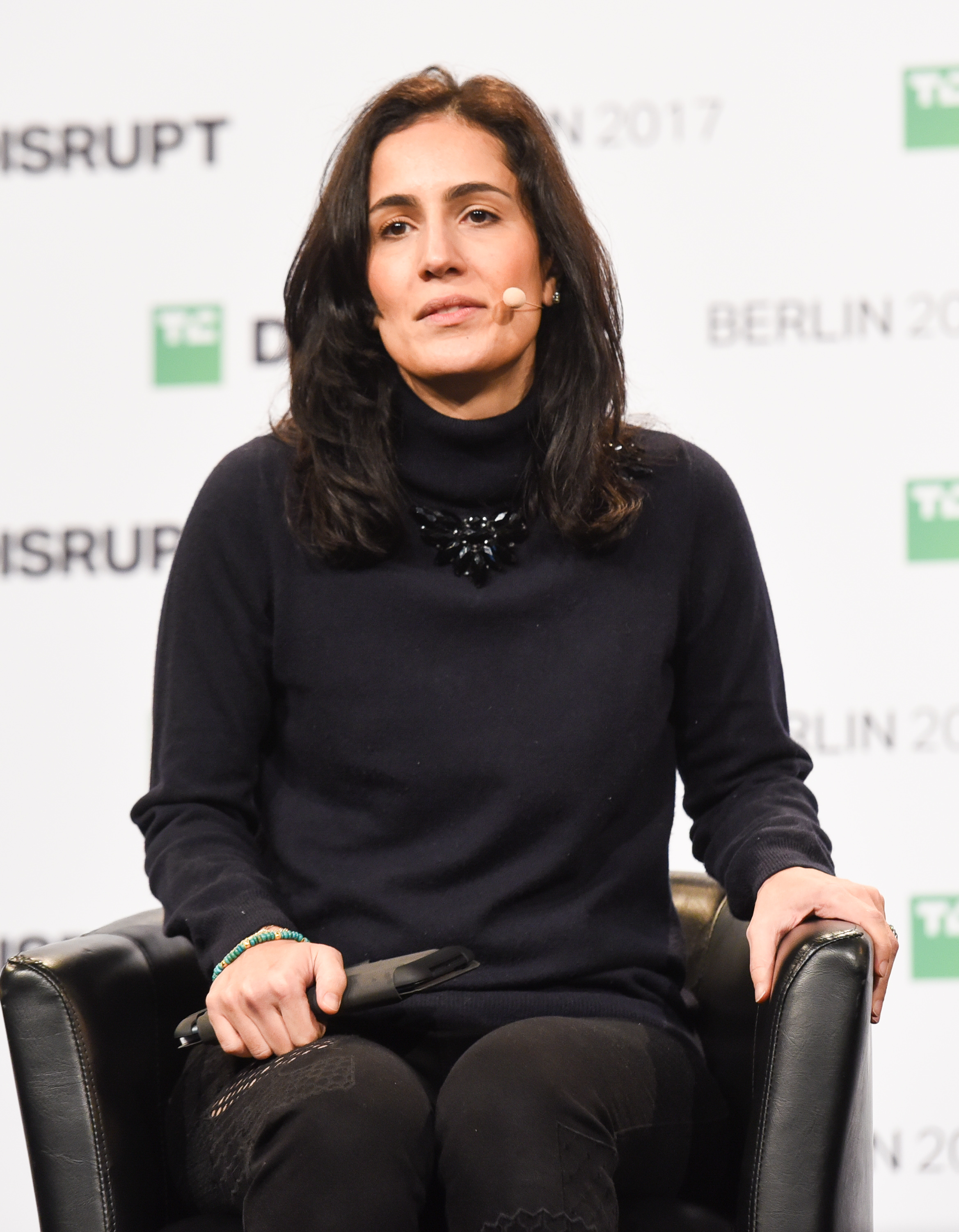 BERLIN, GERMANY - DECEMBER 04: GV Gerneral Partner Avid Larizadeh Duggan at TechCrunch Disrupt Berlin 2017 at Arena Berlin on December 4, 2017 in Berlin, Germany. (Photo by Noam Galai/Getty Images for TechCrunch). (Photo by Noam Galai/Getty Images for TechCrunch)